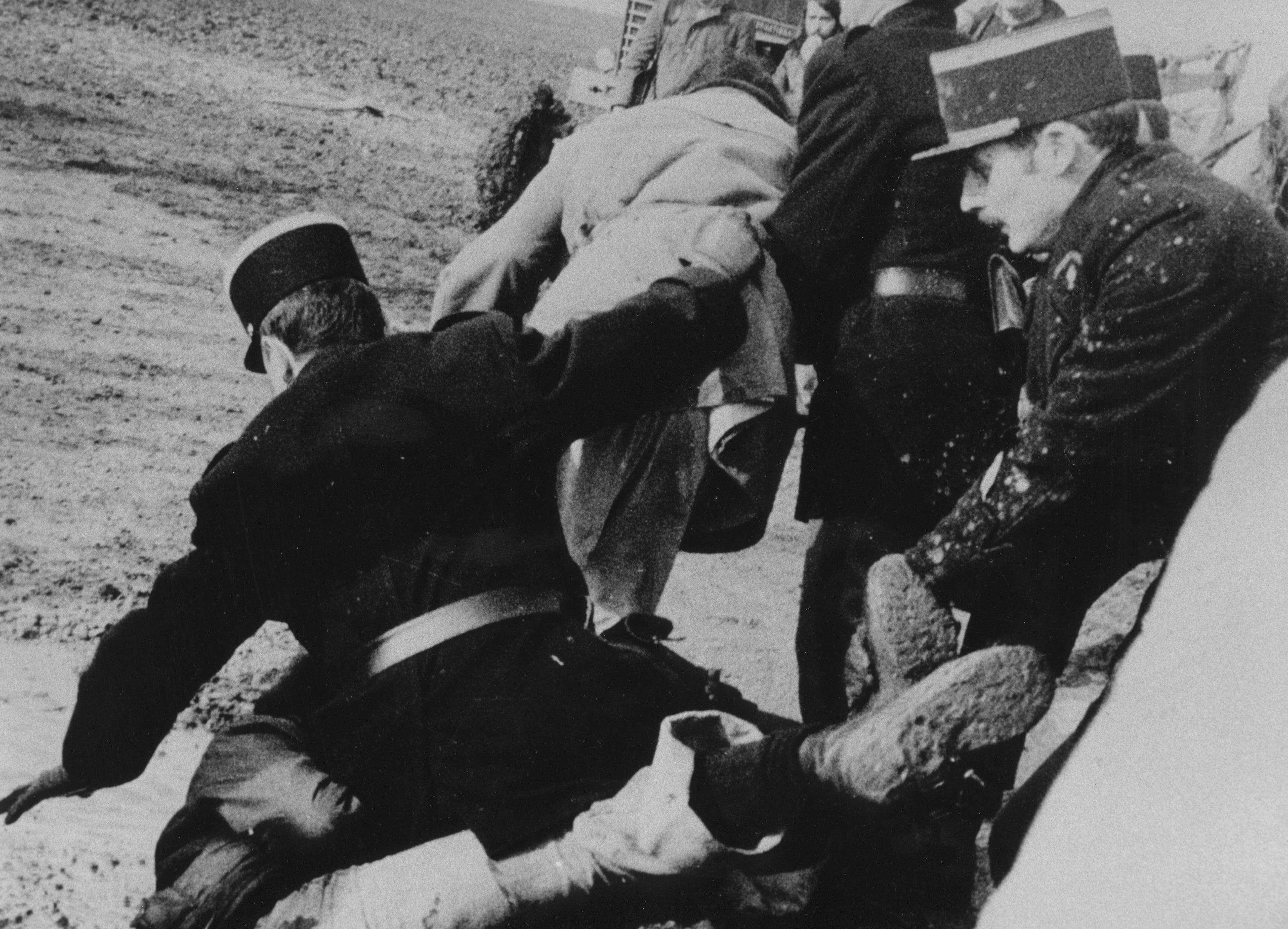 Policemen trying to move people during the Larzac military camp extension protest.